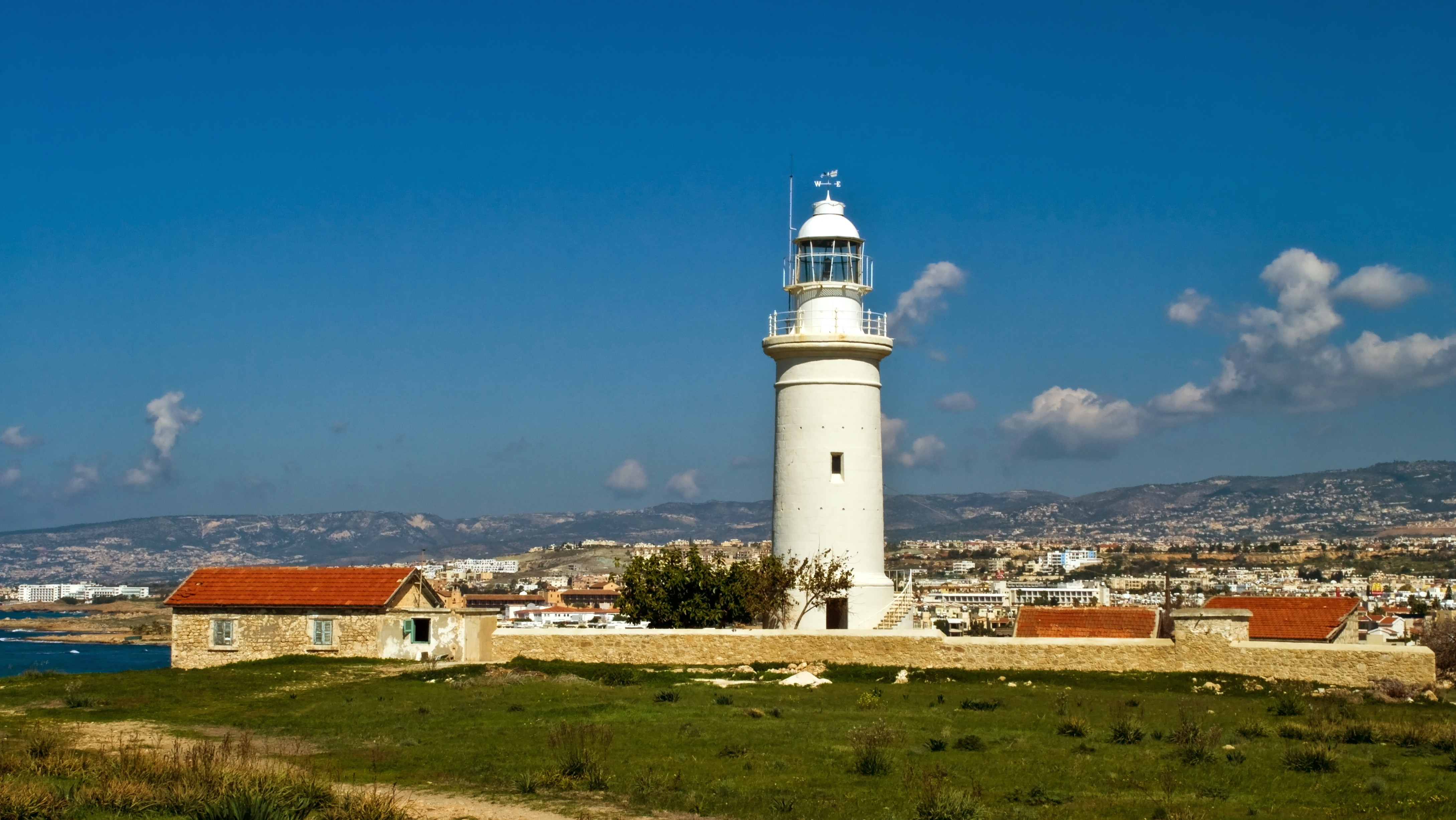 Lighthouse in Paphos, Cyprus.